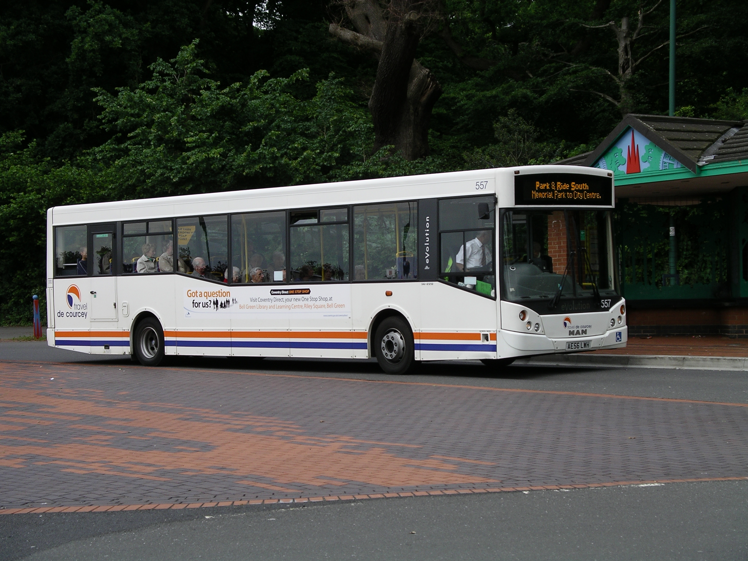 Photo taken by me of a park and ride bus at the bus stop in the War Memorial Park, Coventry, England. MAN 14.220 (A66) / MCV Evolution bus (#557, reg. AE56 LWH), Travel de Courcey operator.